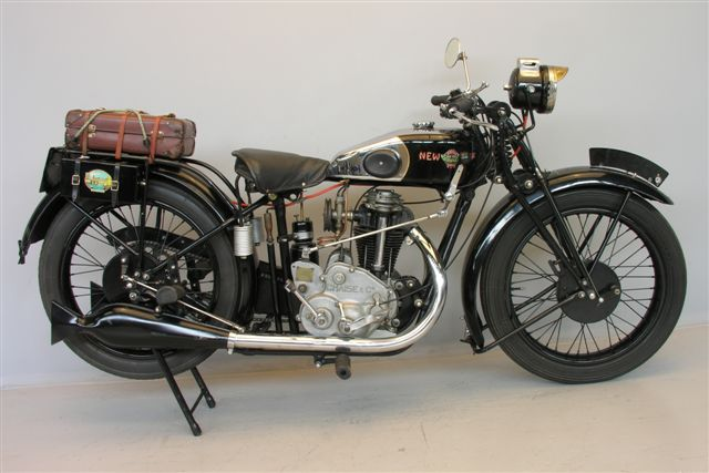 New Map Model BL3 350 cc OHV Chaise engine from 1930